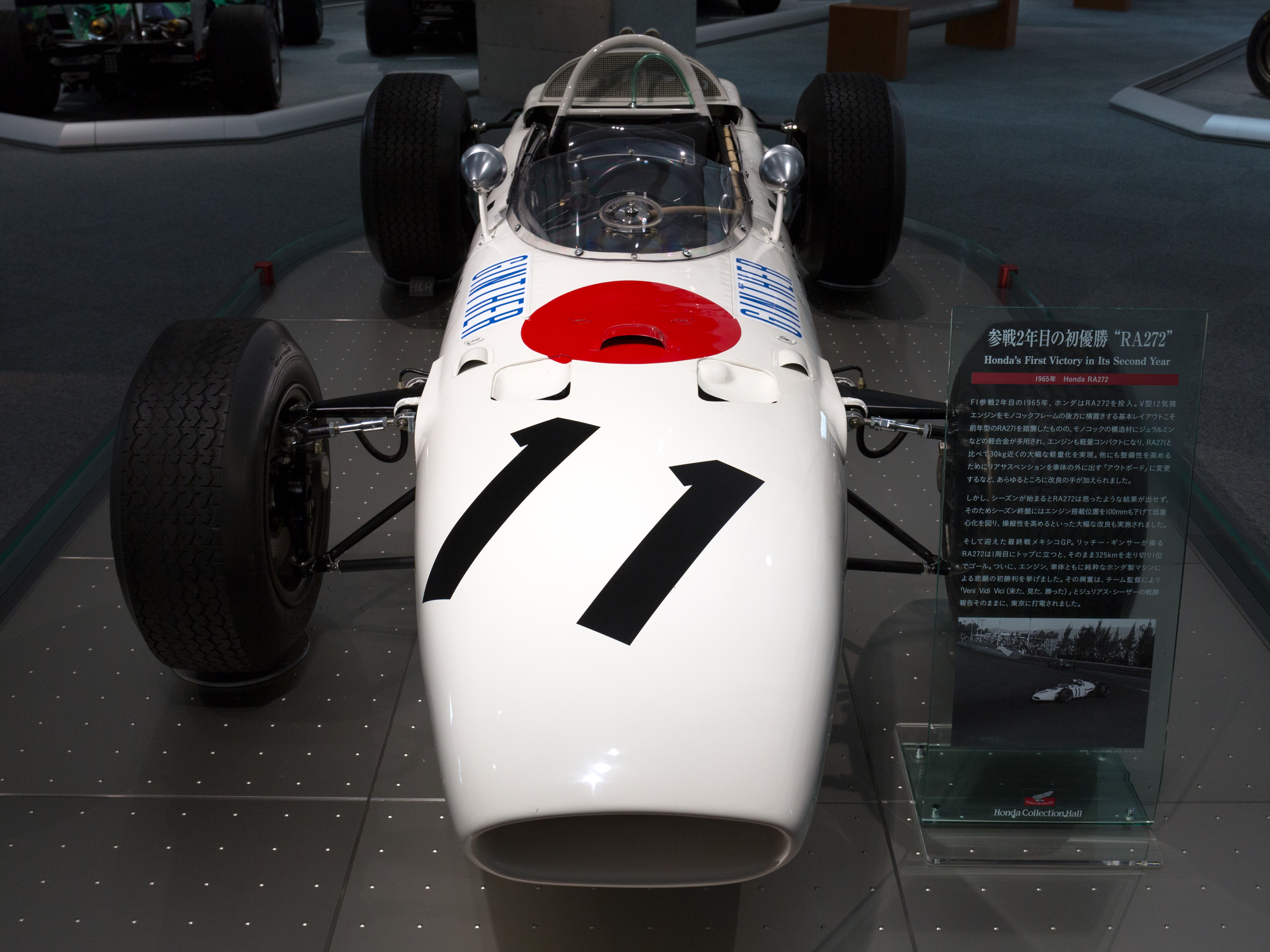 1965 Honda RA272